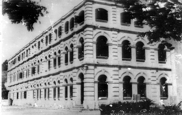 P school